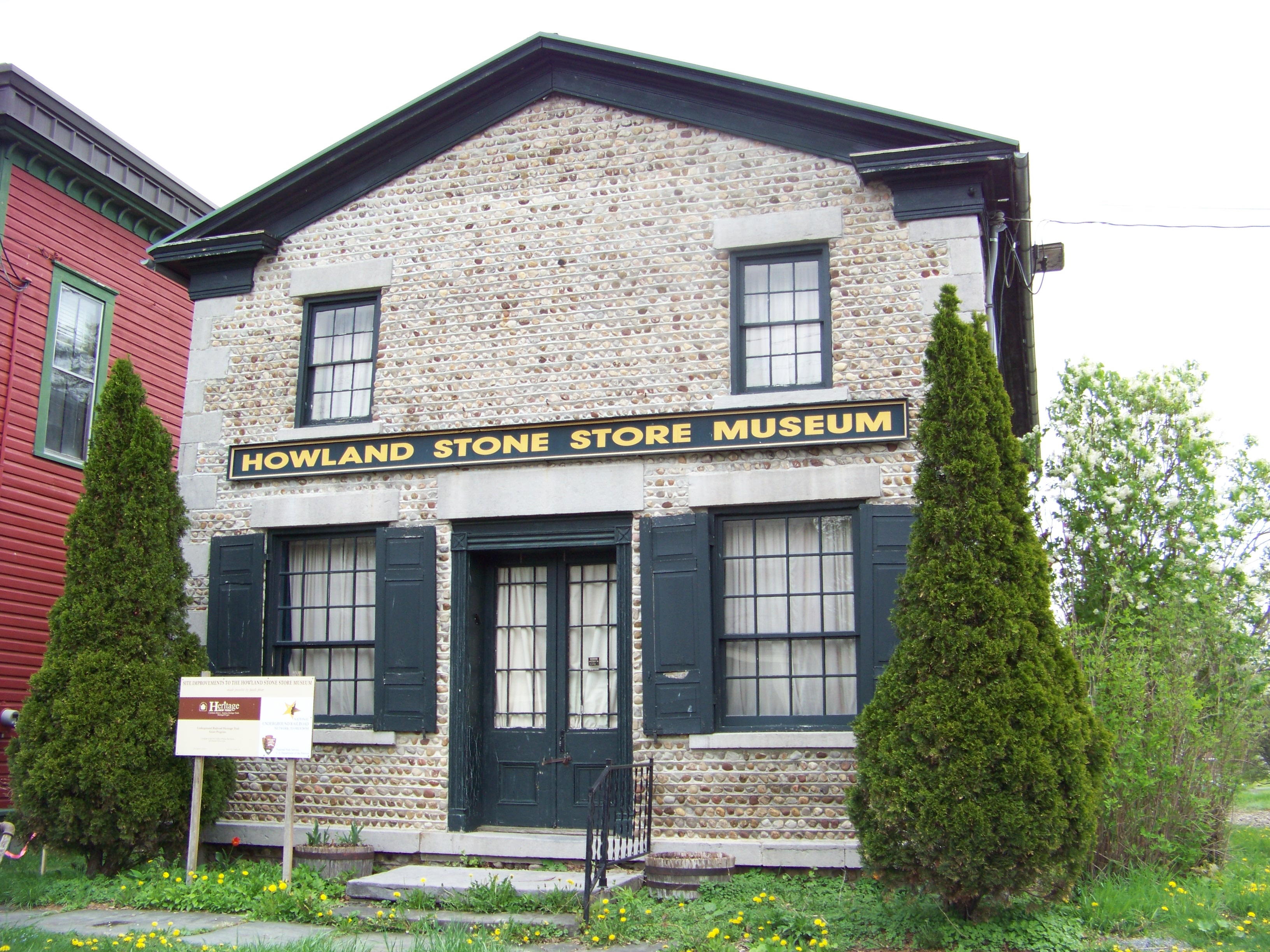 Howland Cobblestone Store, hamlet of Sherwood, Twon of Scipio, NY